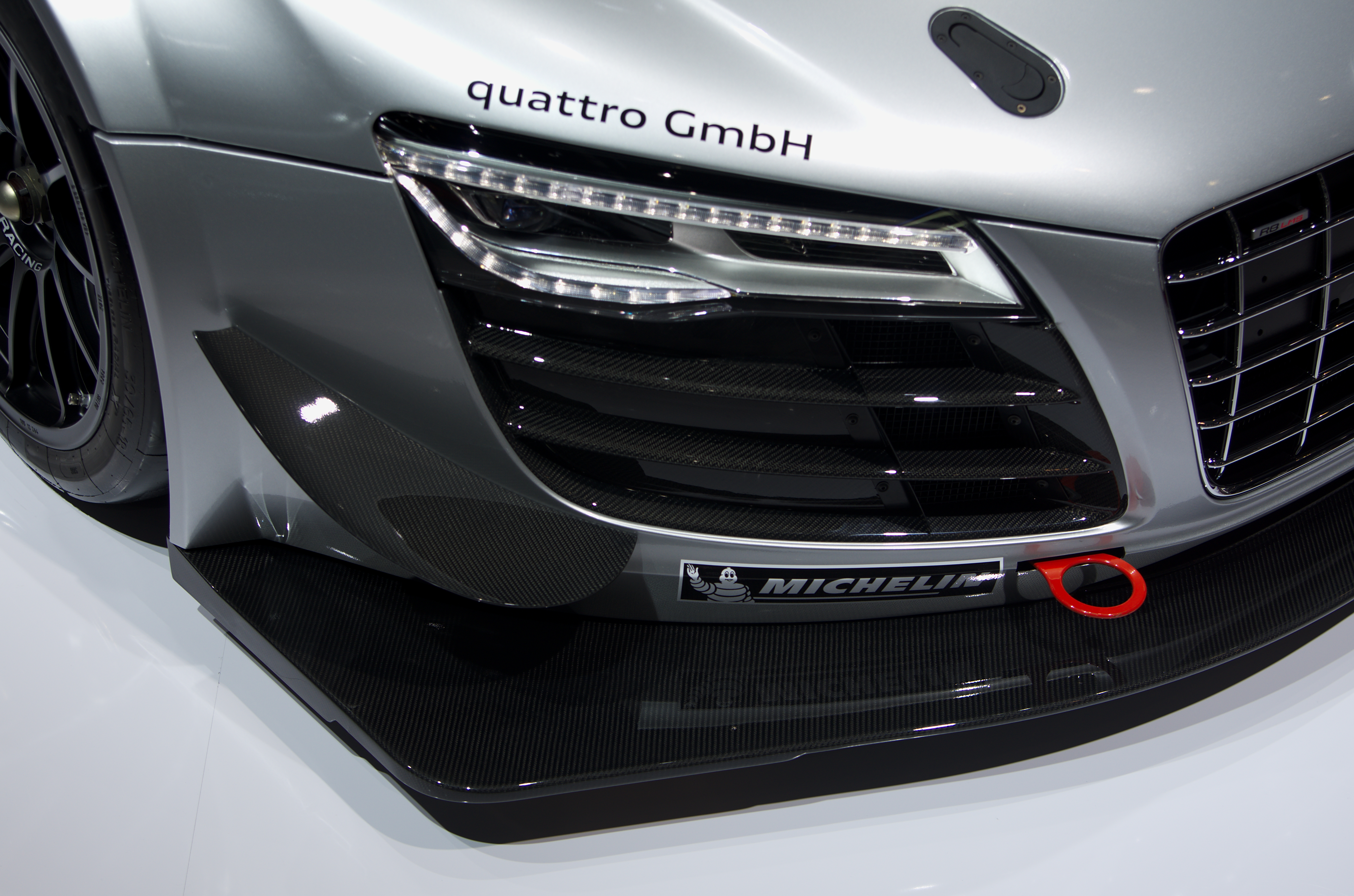 Geneva MotorShow 2013 - Audi R8 LMS ultra front light and spoiler